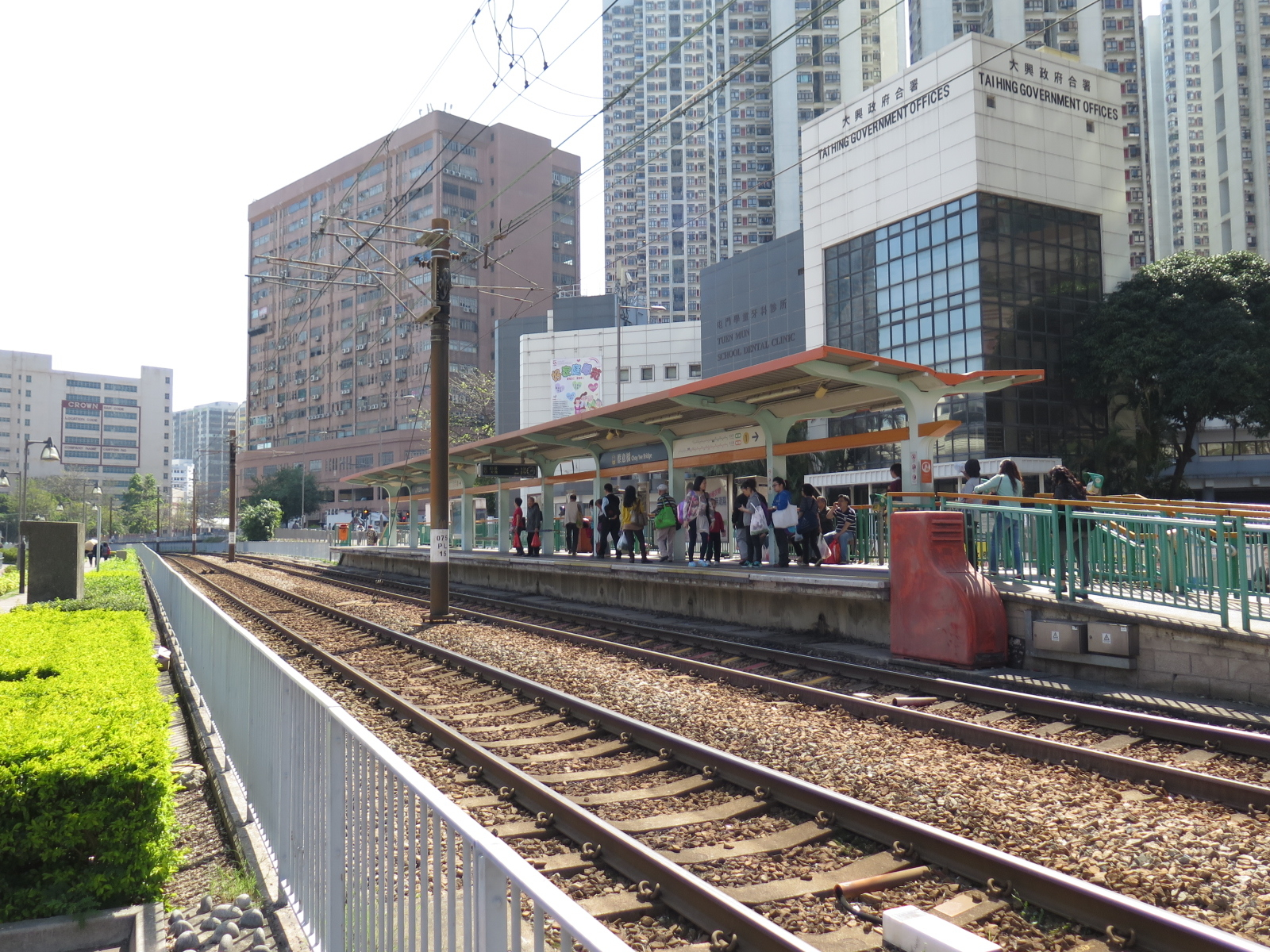 Choy Yee Bridge Stop